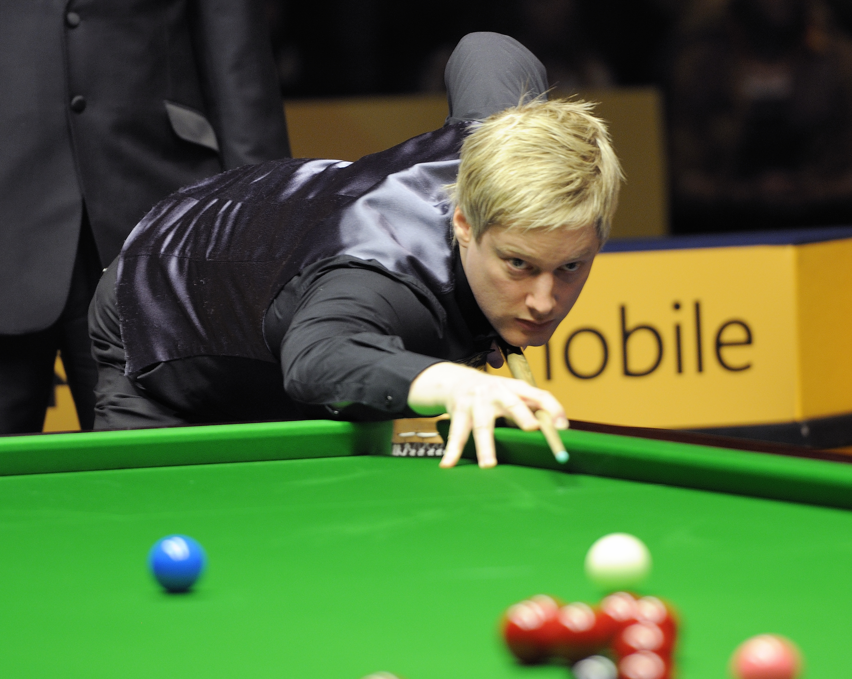 Picture taken in Berlin during the Snooker German Masters in 2013. Neil Robertson.